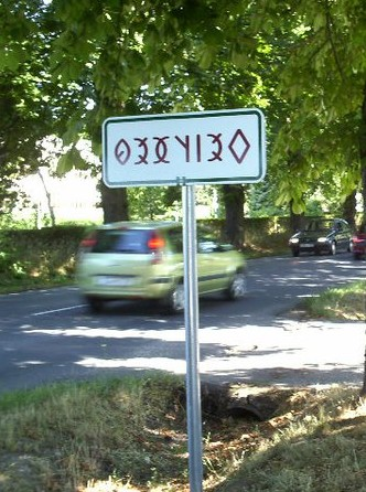 City limit table in Keszthely, Hungary. Traditional Hungarian letters (rovas)